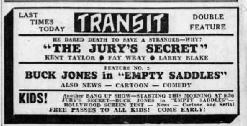 Transit Theater advertisement for the American films The Jury's Secret (1938) and Empty Saddles (1936) - 9 Apr. 1938 Morning Call, Allentown PA